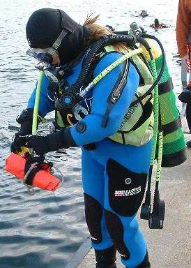 I made this photo of a Buoyancy compensator (stab jacket) at Horsey Island UK